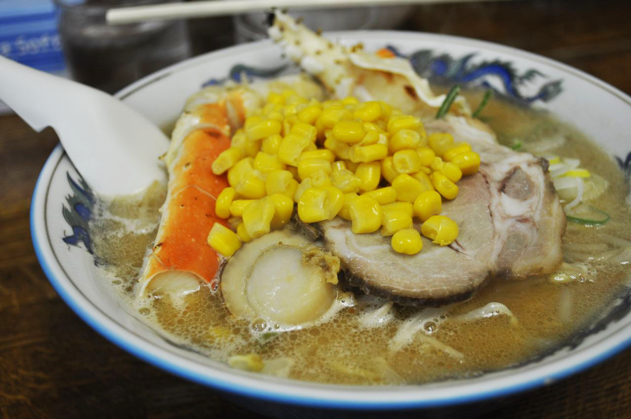 Miso ramen with seafood and pork, from a ramen shop in Sapporo.